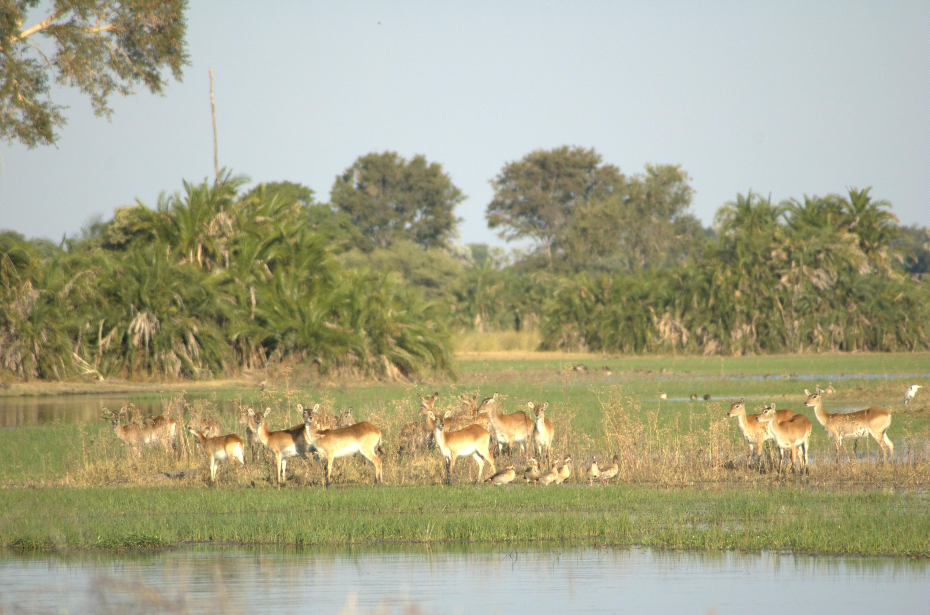 A group of female Lechwe Antelopes in Okavango Delta, Botswana. Photographed in June 2005. The original in Nikon's raw format is available under a different license. пан Бостон-Київський 20:00, 17 March 2006 (UTC)